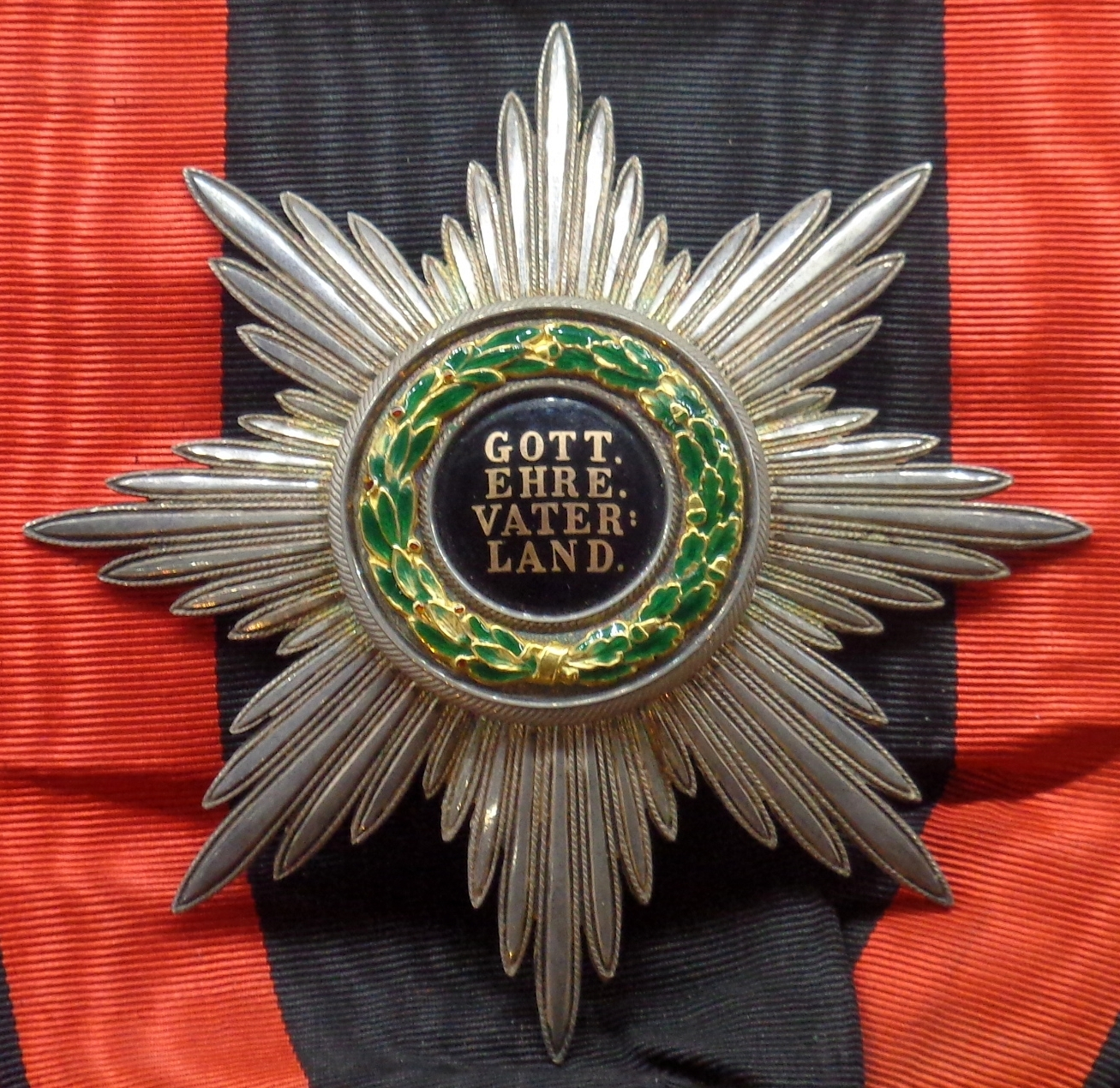 Order of Ludwig, star of Grand Cross. Grand Duchy of Hesse. The exhibition of the Tallinn Museum of Orders of Knighthood, Estonia.